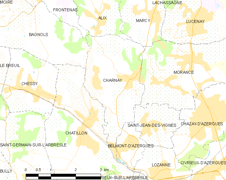 Map of French municipality